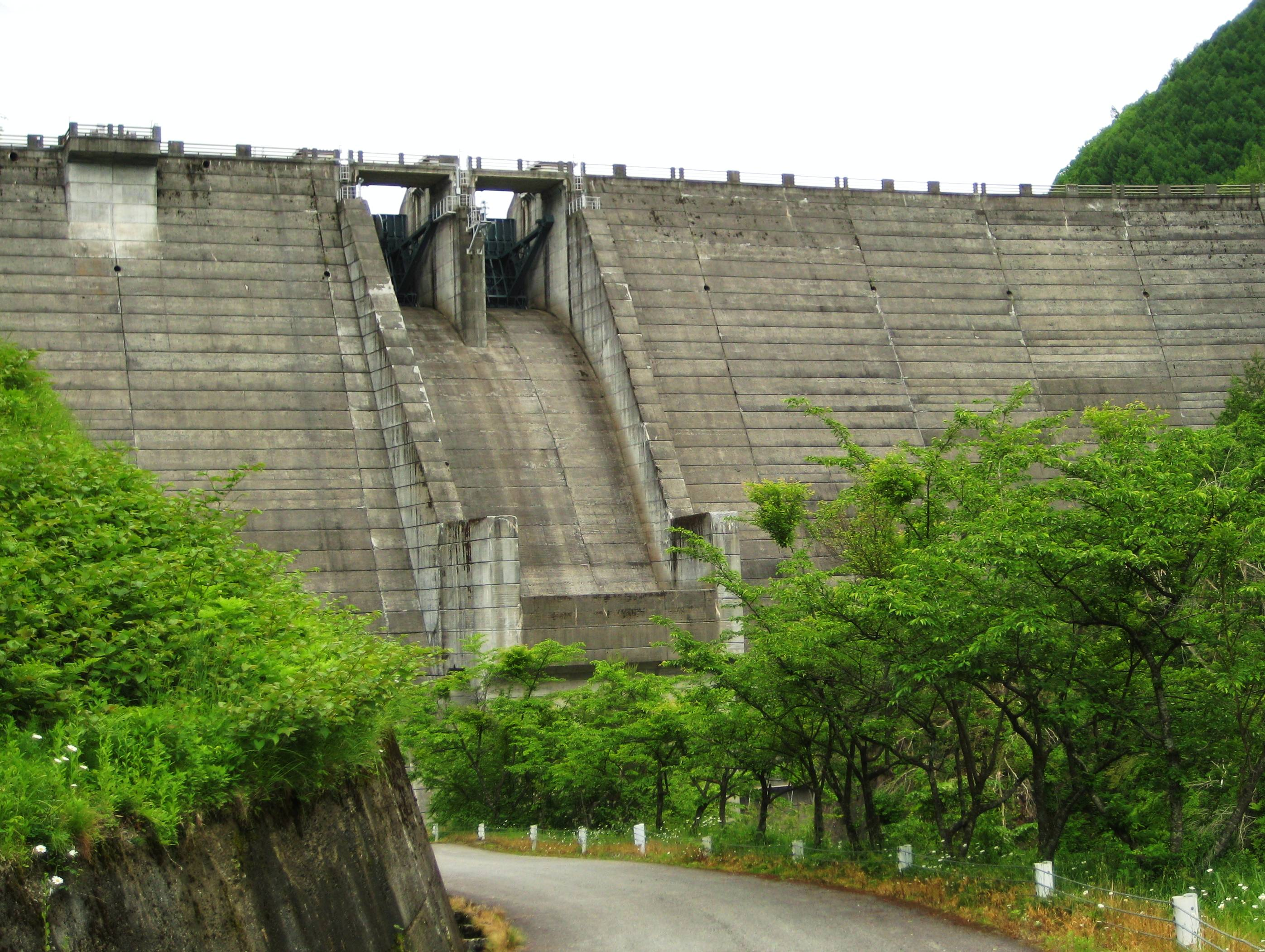 Takane II Dam.